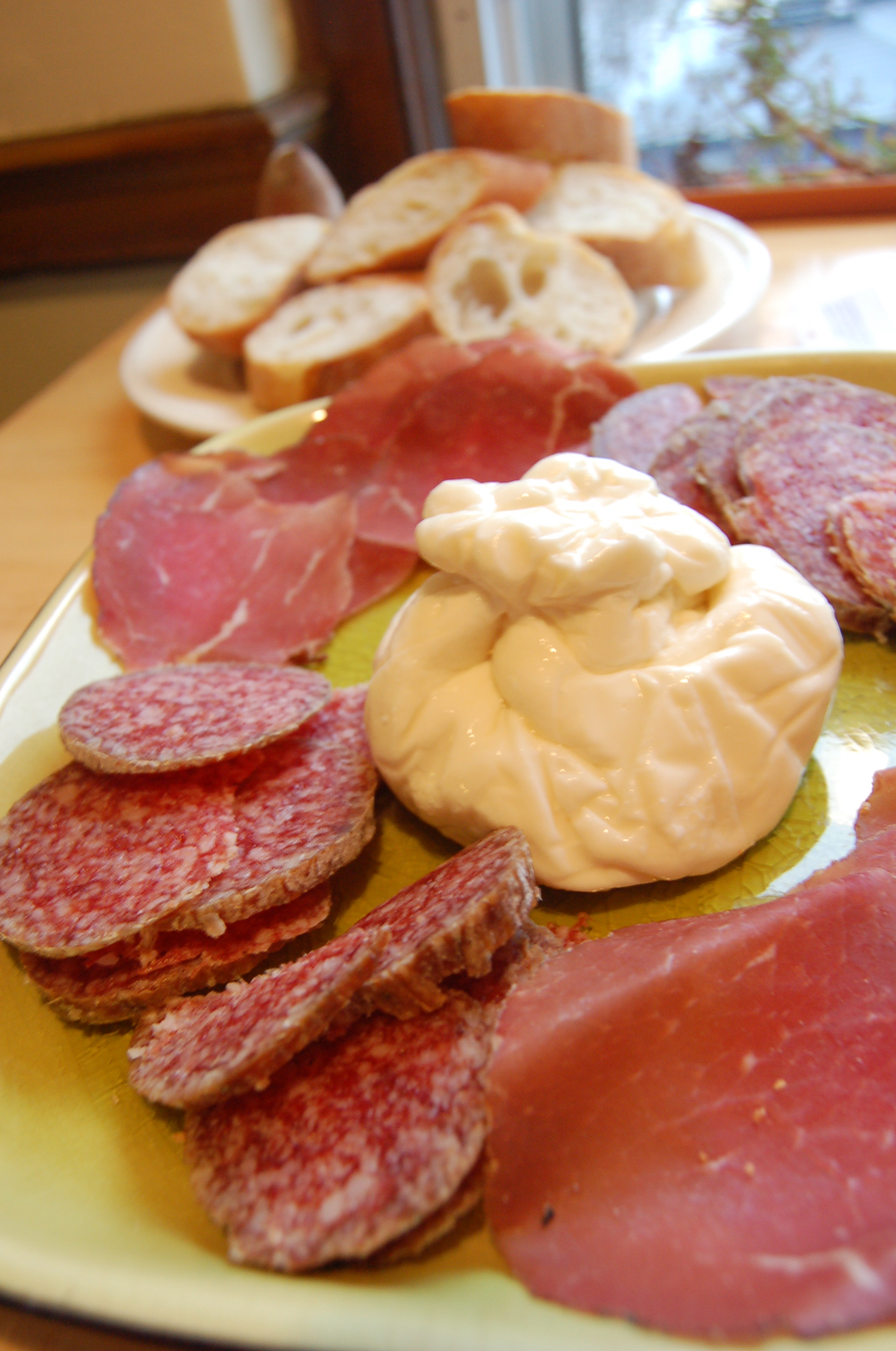 Charcuterie Platter with Hungarian salami lovely dry texture, and the flavour not too salty, but very pronounced.